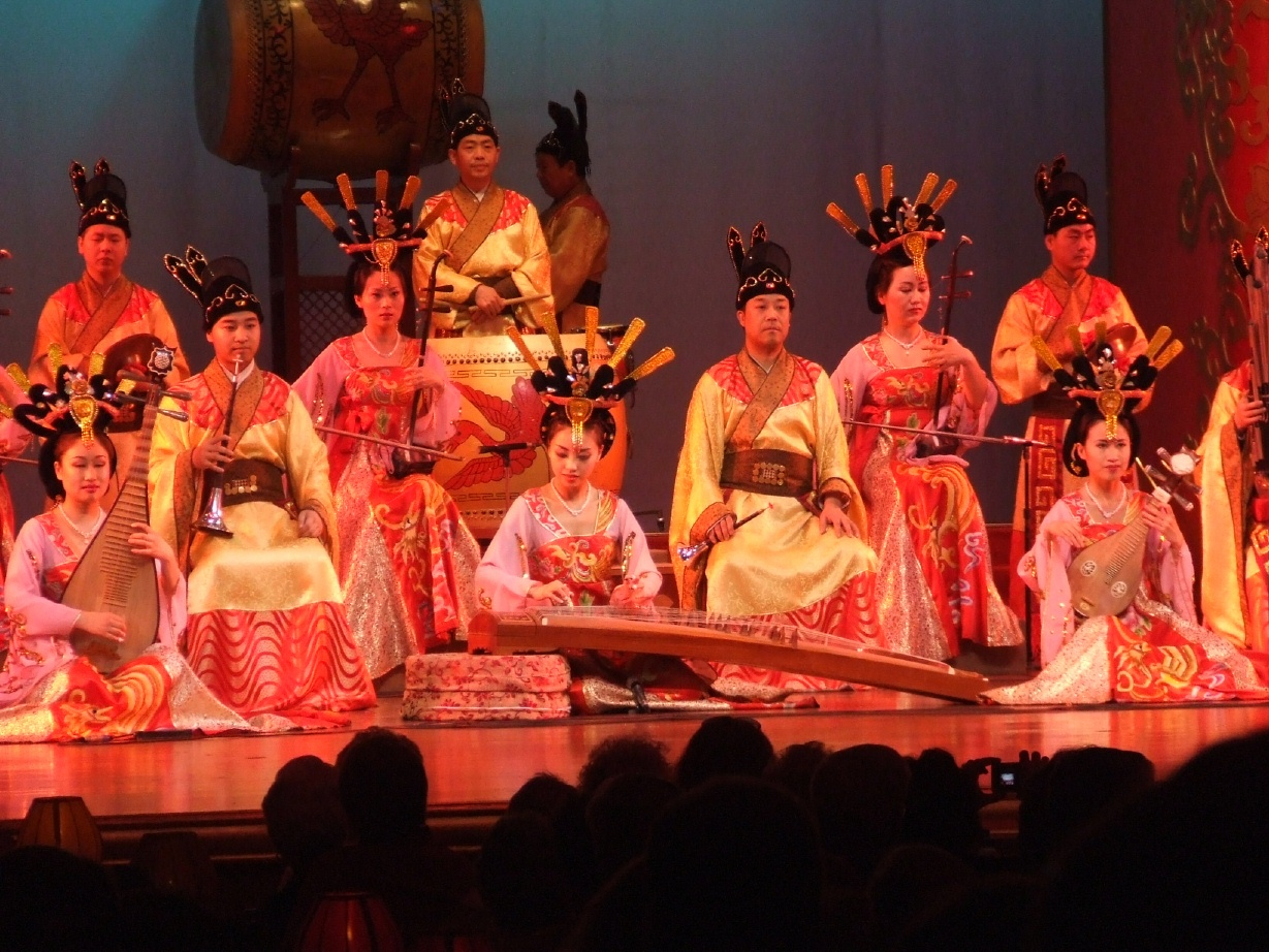 Traditional Chinese musical performance at Xi'an